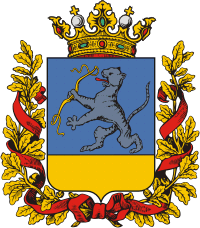 Coat of arms of Transcaspian Province, Russian Empire.